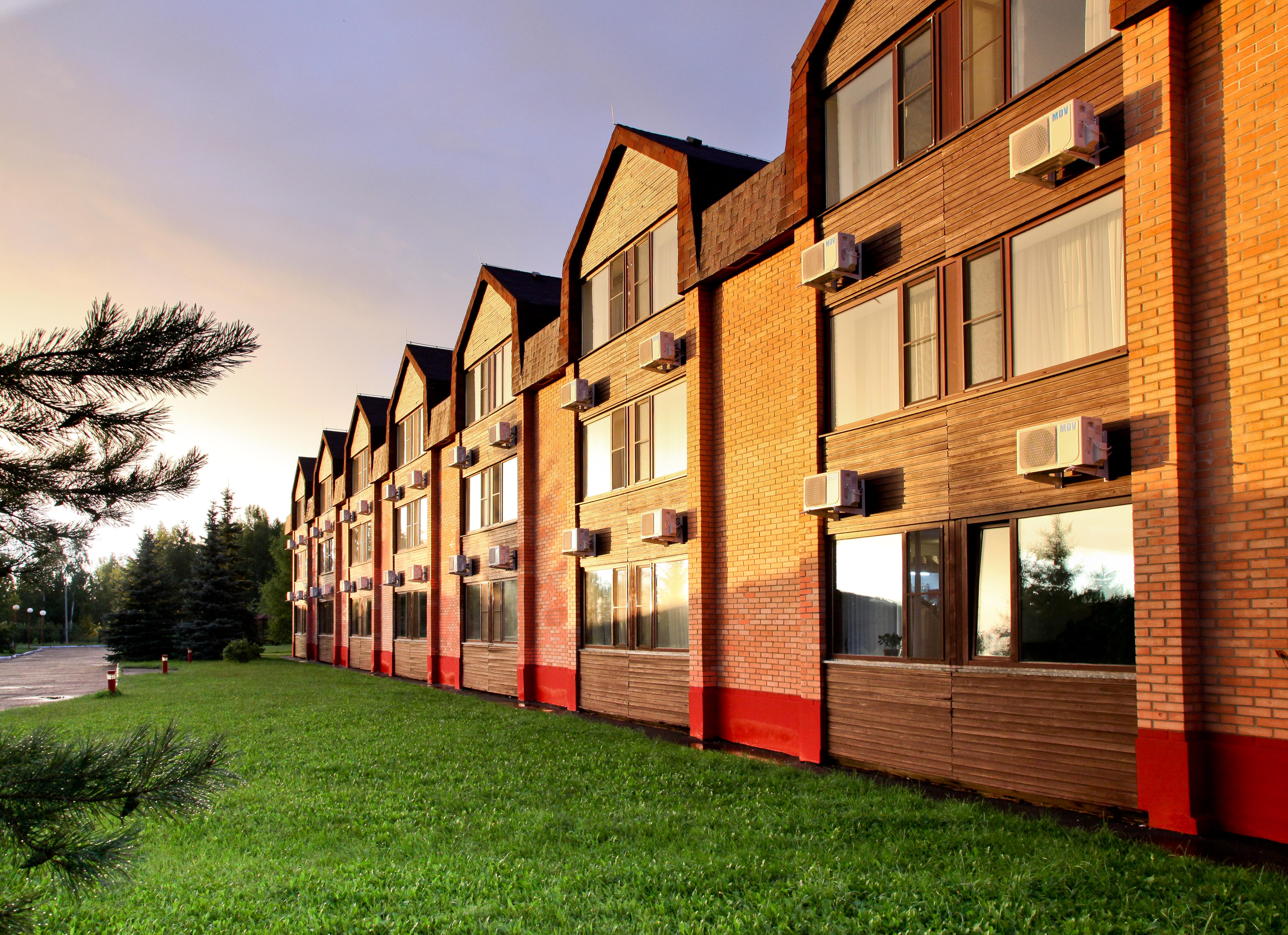 Azimut Hotel Kostroma